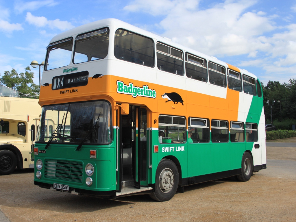 DHW 351W, a preserved Bristol VRT/SL3 preserved in Badgerline Swiftlink livery. It was number 5529 in their fleet.